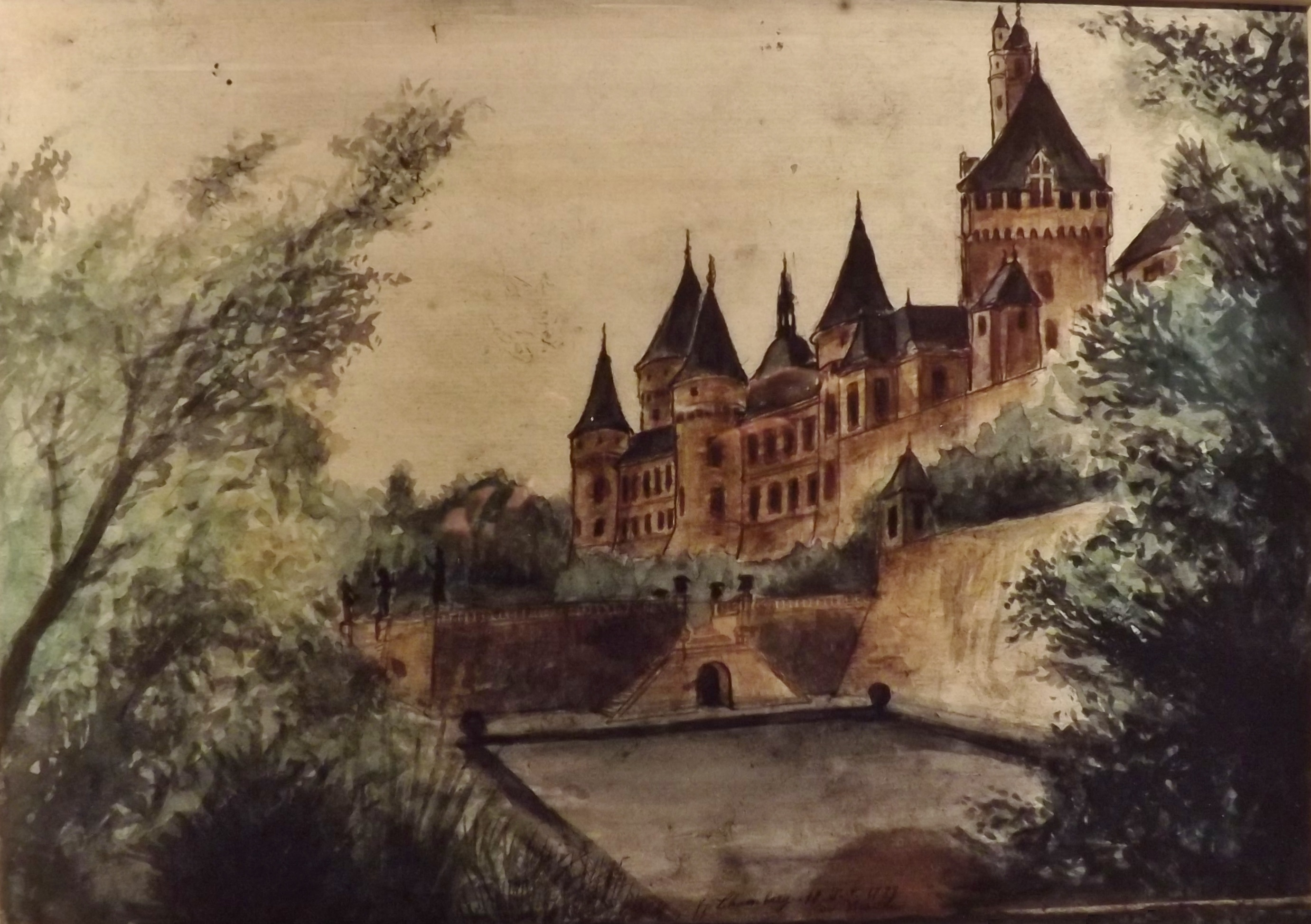 Sight of Aile du Midi and tour des Archives of Chambéry's castle, Savoie, France, in 1788.